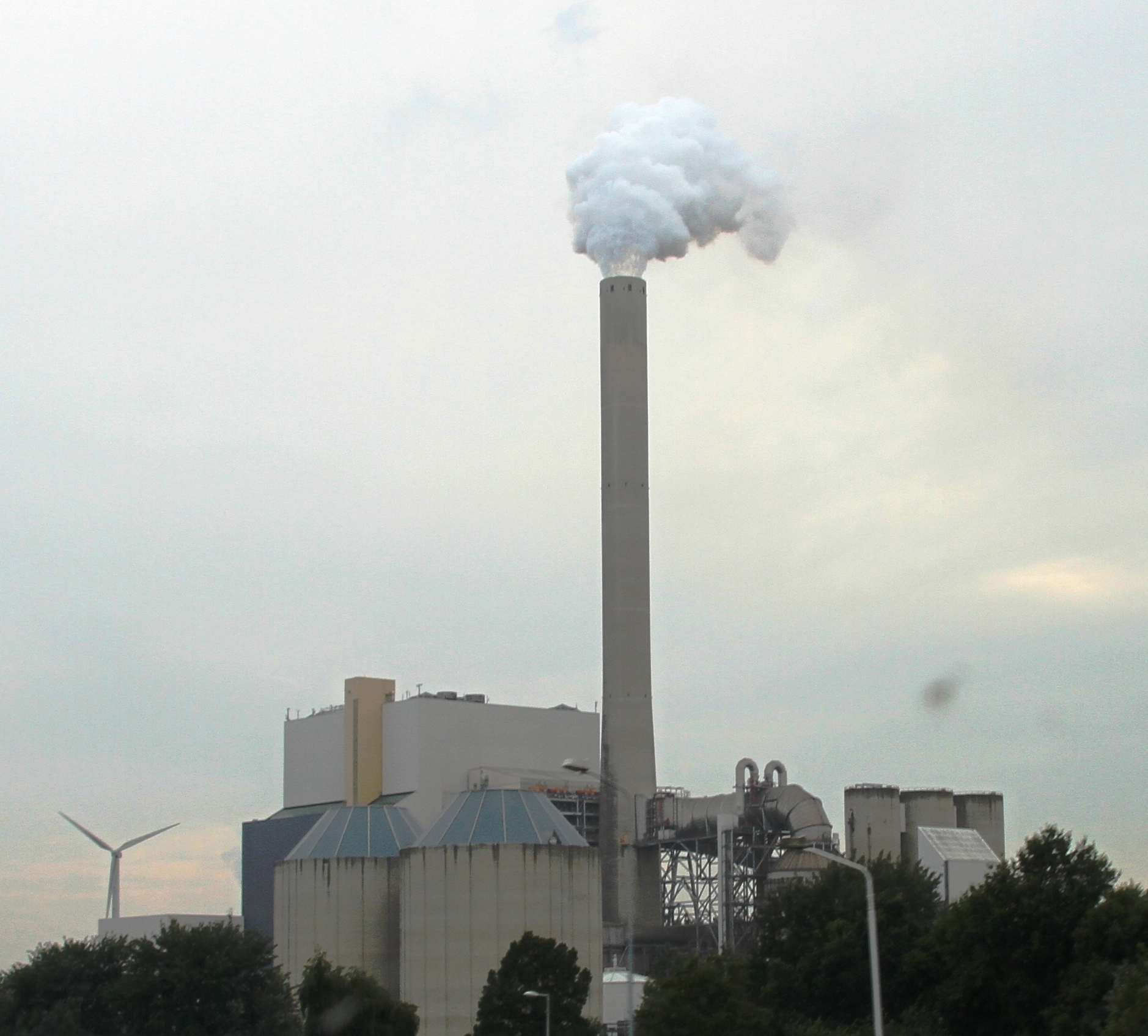 Image from the Westpoort (West Port) of Amsterdam, Netherlands.